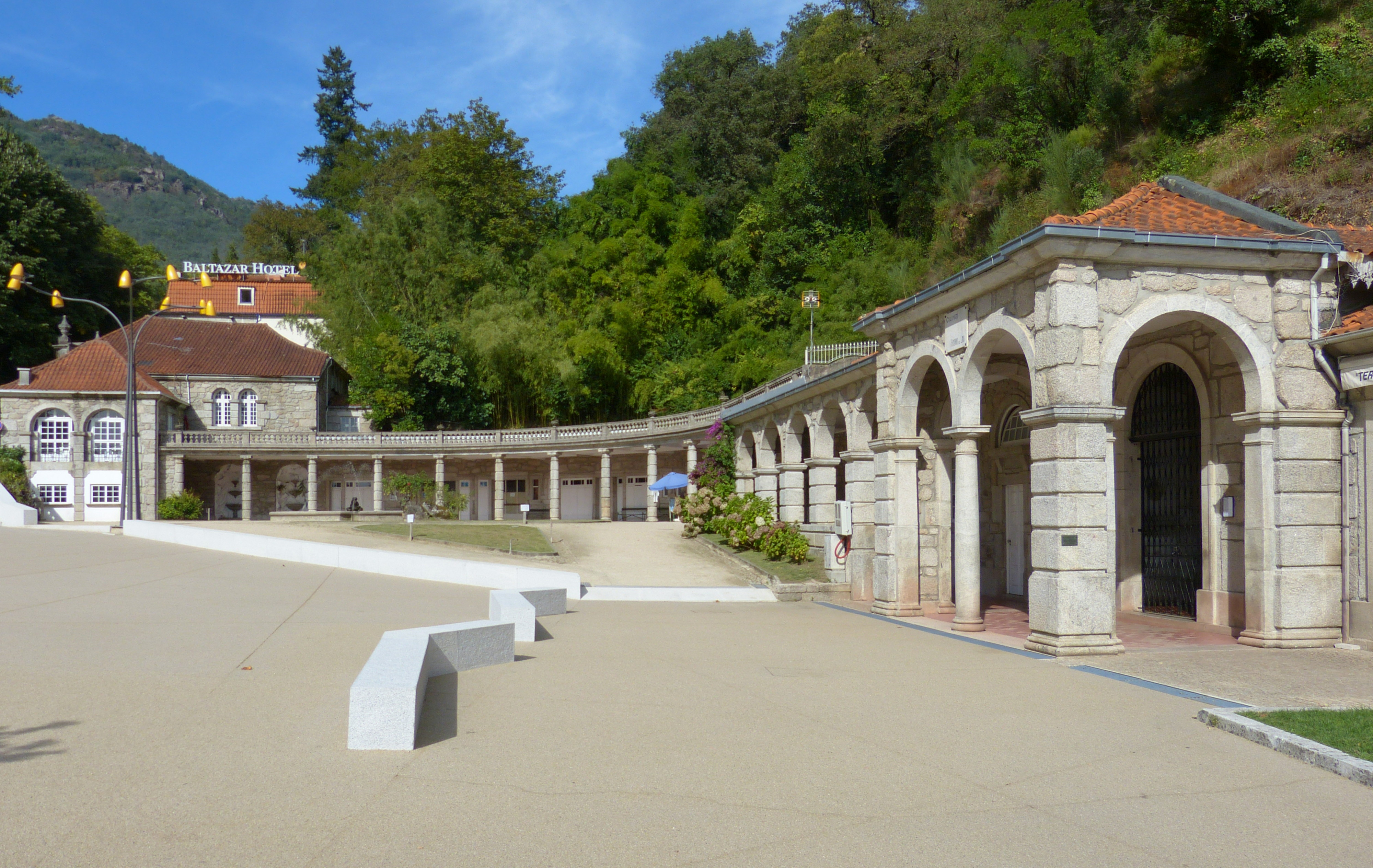 Arcade in the spa town Gerês (Vila do Gerês), Portugal This building is classified as Sem protecção legal.